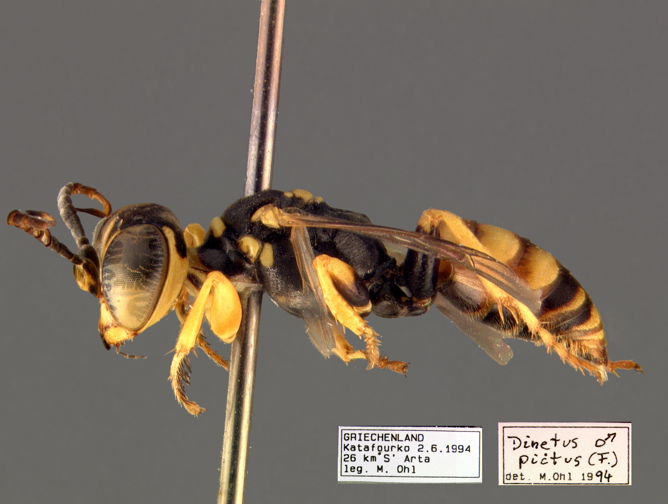 Dinetus pictus male, specimen from Greece, Katafourka